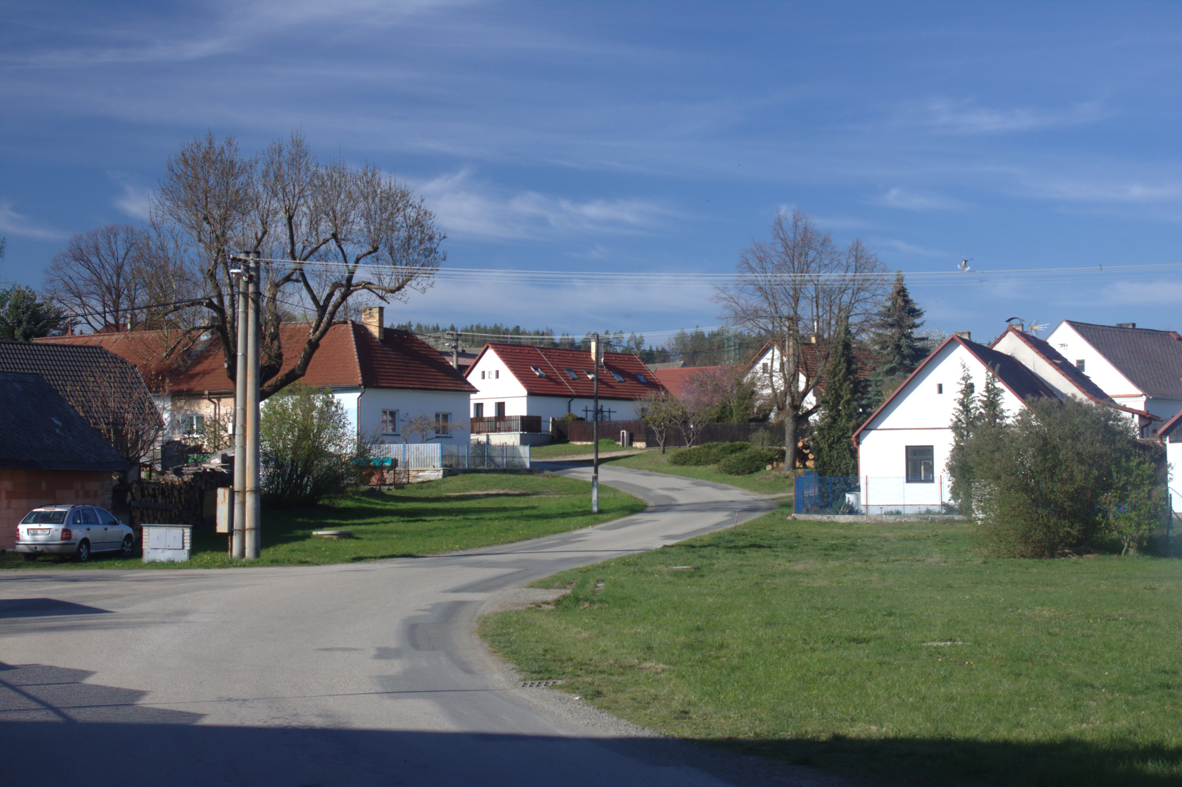 This photograph was created as a part of Wikiexpedition Mladá Vožice, a project supported by Wikimedia Foundation grant.